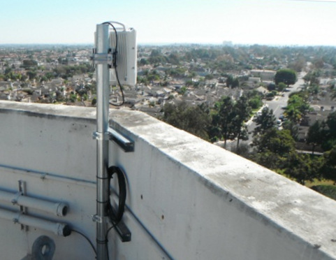 A RADWIN Point-to-Point wireless radio in operation at Huntington Beach, California.